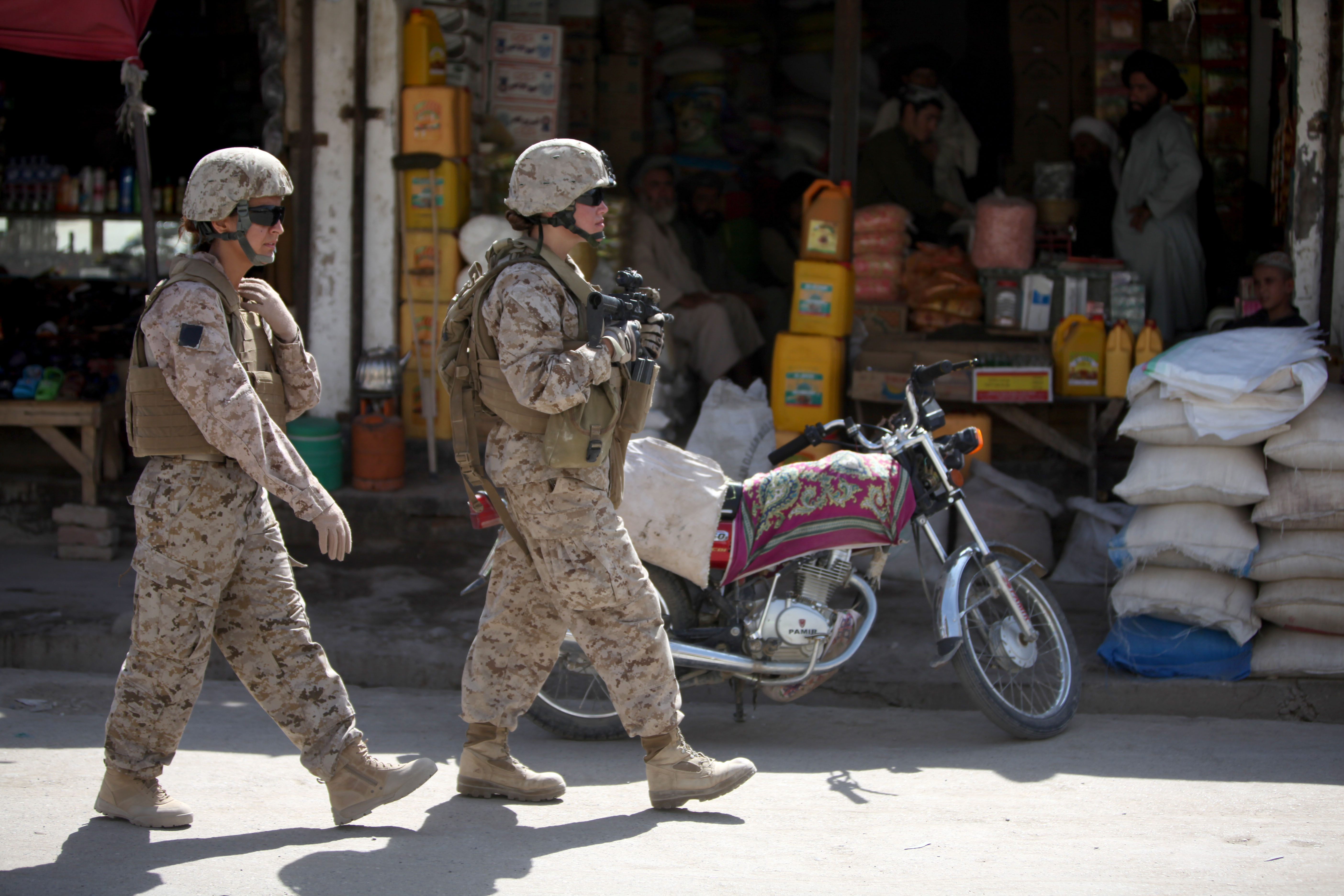 U.S. Marine Cpl. Mary E. Walls (right), an ammunition technician, and linguist Sahar, both with a female engagement team, patrol with 1st Battalion, 2nd Marine Regiment in Musa Qa'leh, Afghanistan. Walls and other female engagement team members patrolled local compounds around the district center to establish relationships with local people and talk with the women of the area in support of the International Security Assistance Force.